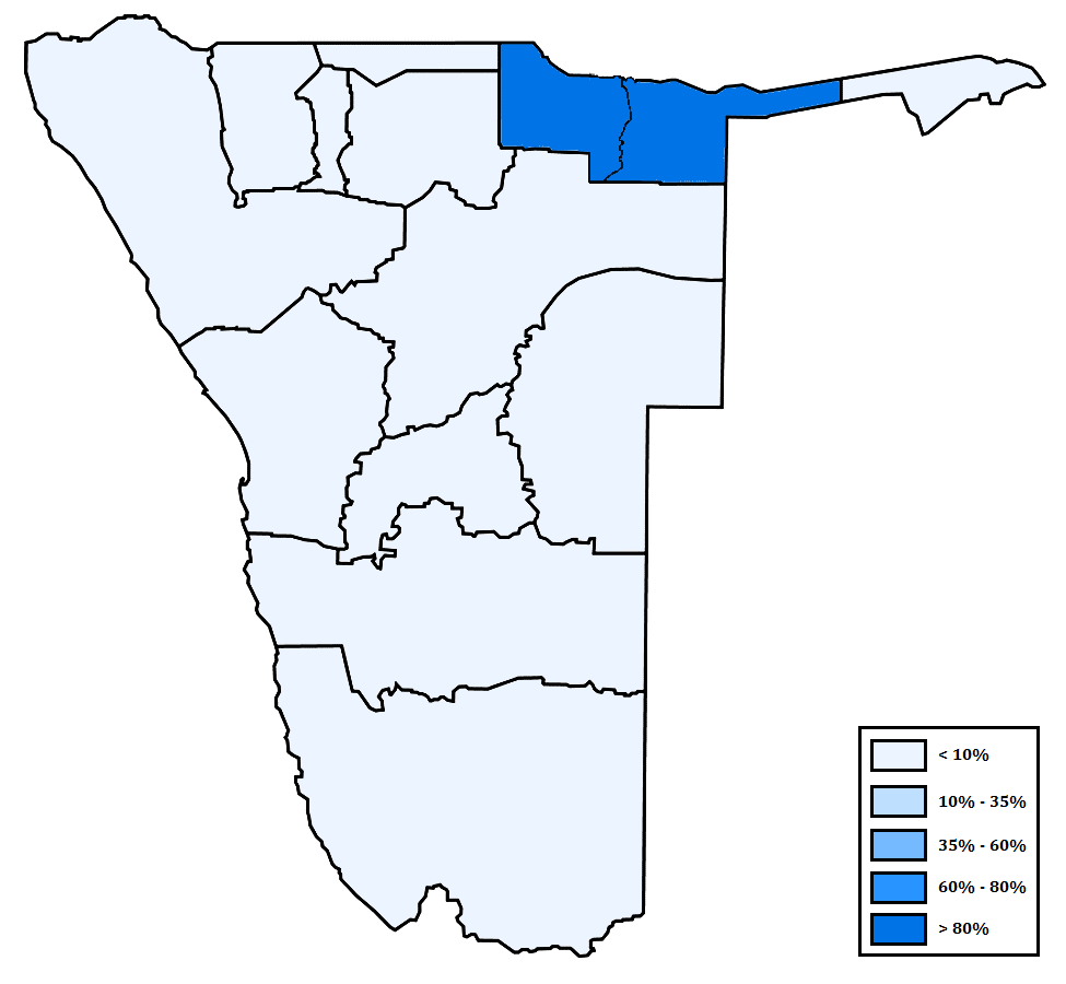 Distribution of Kavango languages in Namibia per region